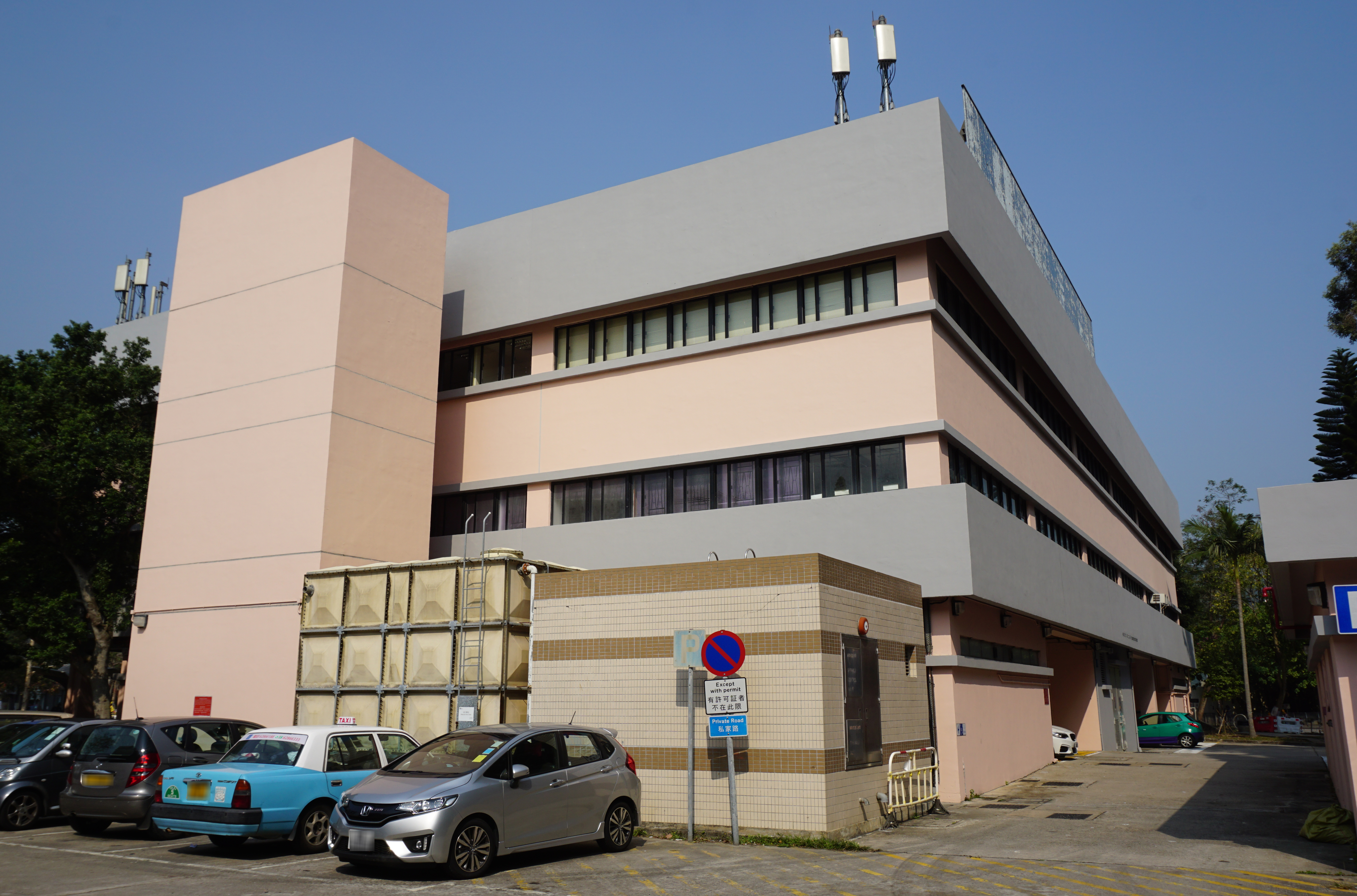 Government Offices in Mui Wo, Hong Kong.